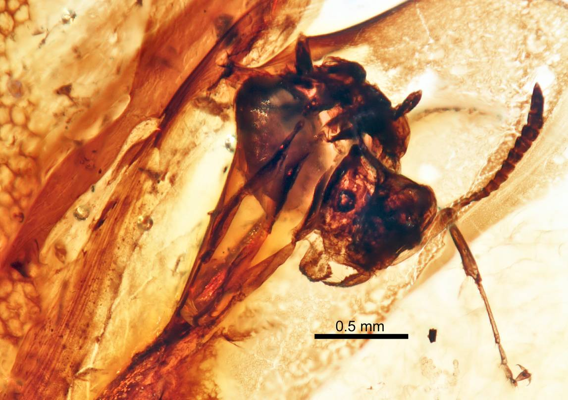 Profile view of the Chronomyrmex medicinehatensis holotype worker. Campanian, Late Cretaceous; Canadian amber, near Medicine Hat, Alberta, Canada Strickland Entomology Museum, University of Alberta, Edmonton, Canada specimen UASM336801